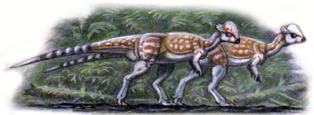 Tylocephale in environment.